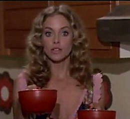 screenshot from the film La sculacciata (1974)